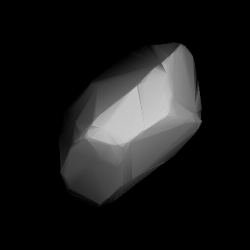 3D convex shape model of 1542 Schalén, computed using light curve inversion techniques. J. Hanuš, J. Ďurech, M. Brož, B. D. Warner (June 2011). "A study of asteroid pole-latitude distribution based on an extended set of shape models derived by the lightcurve inversion method". Astronomy and Astrophysics 530: A134. ISSN 0004-6361. arXiv